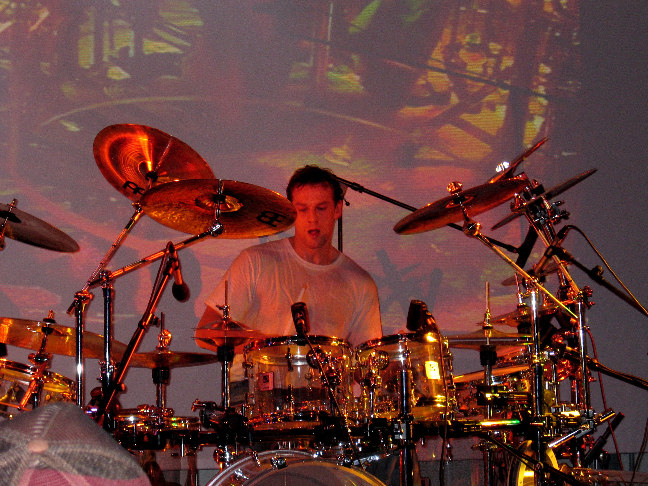 ThomasLang